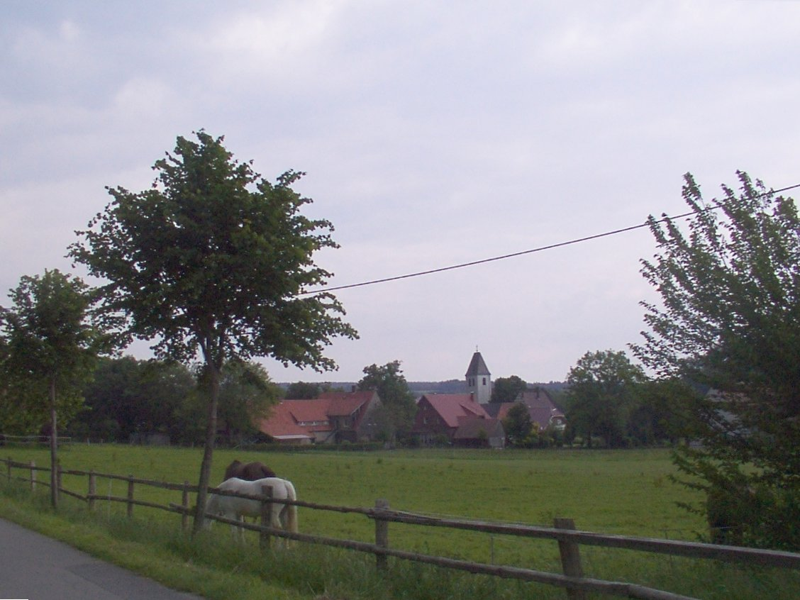 Lichtenau (Westfalen): Herbram, seen from the Wallberg